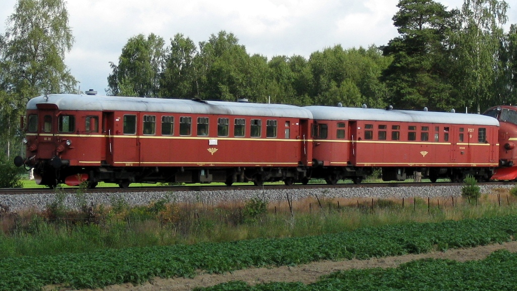 Former NSB BM 86.28 and BDFS 86.76 on Solørbanen during an excursion with Nordisk Jernbaneklub through Sweden and Norway. Pulled by a Di. 3.